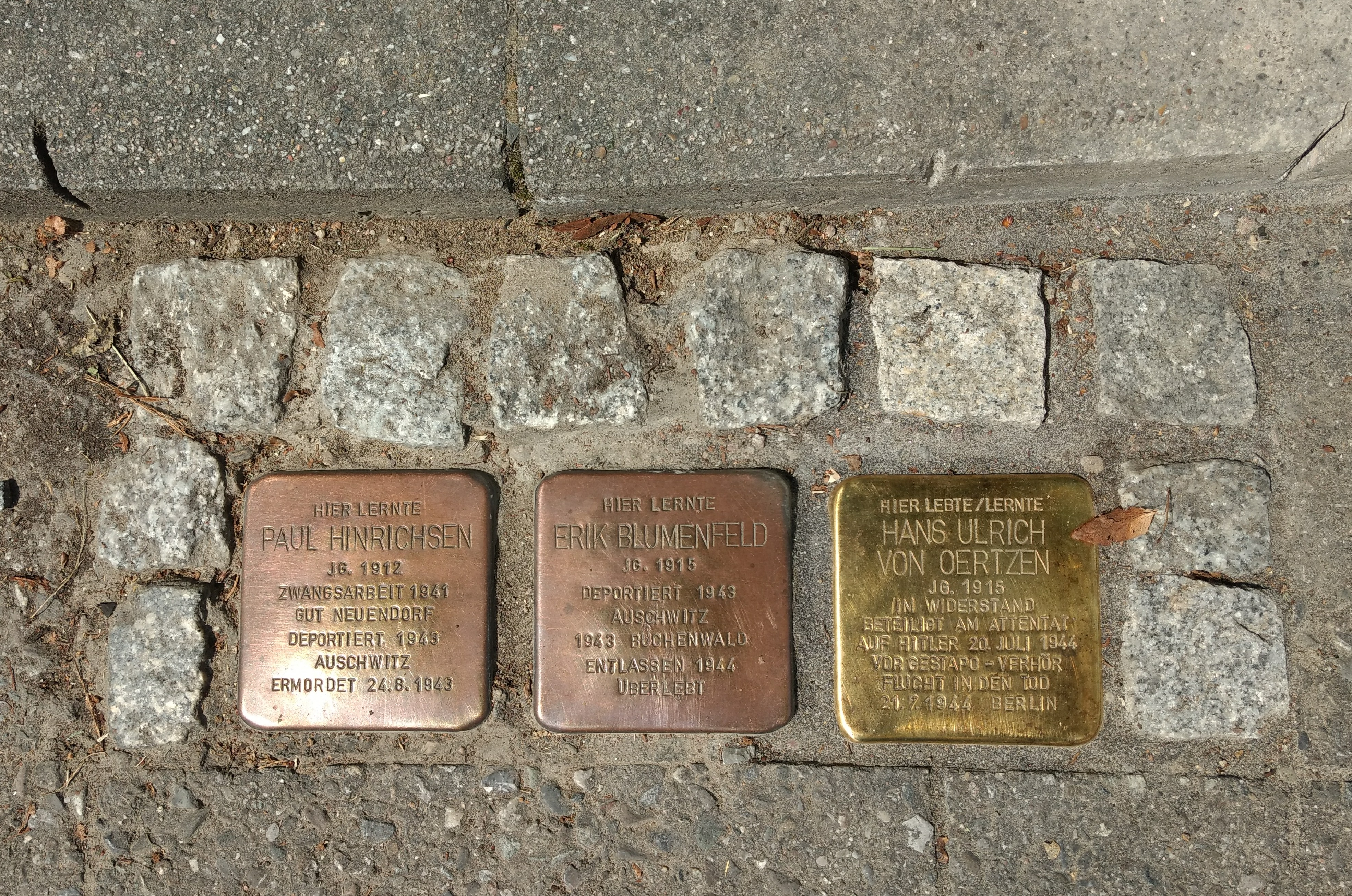 Three Stolpersteins commemorating students of Schule Schloss Salem were laid at Schloss Spetzgart.